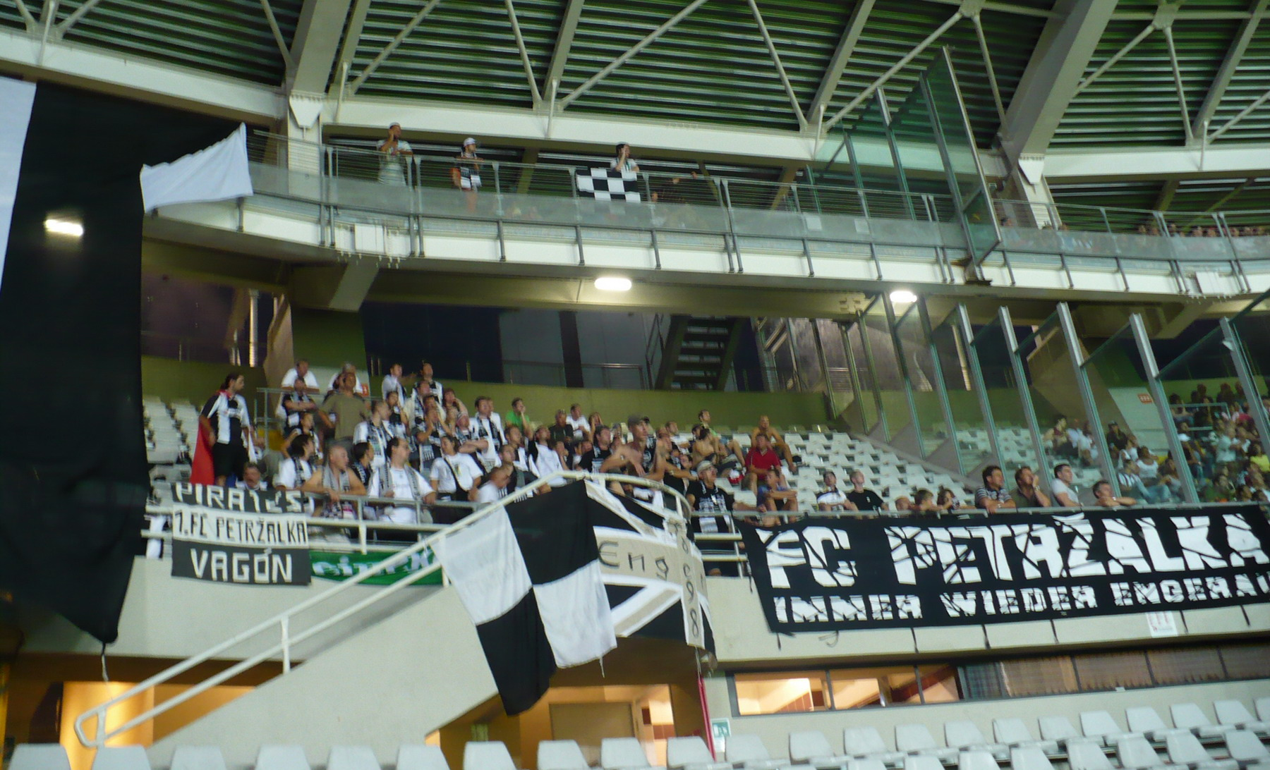 petrzalka fans